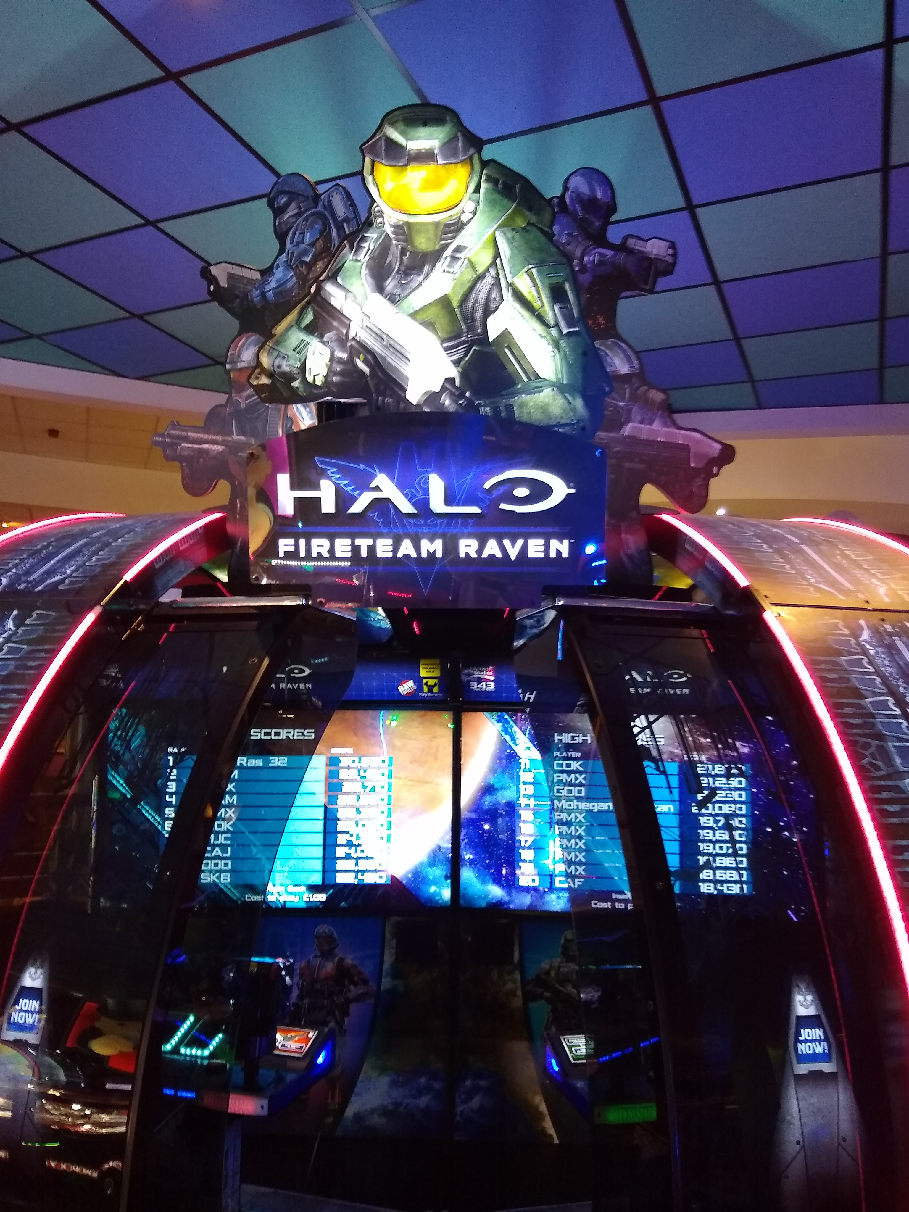 This is a photograph of a Halo: Fireteam Raven arcade booth in Edinburgh, United Kingdom